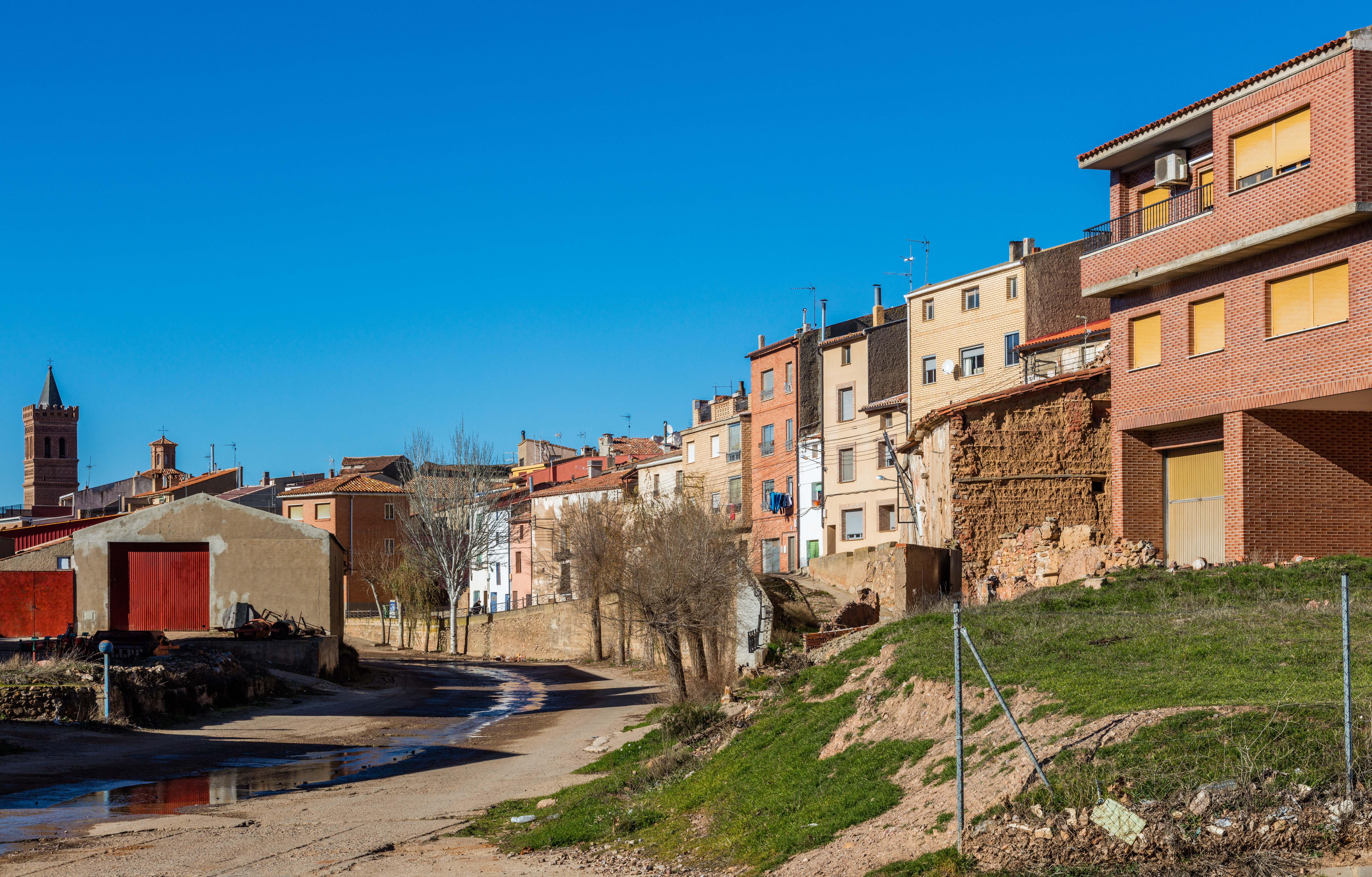 Herrera de los Navarros, Zaragoza, Spain